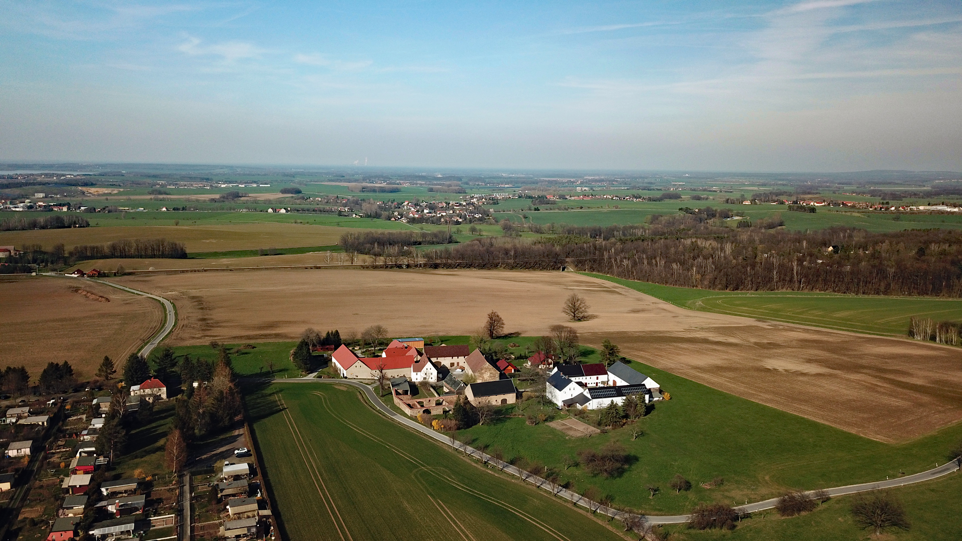 Daranitz (Kubschütz, Saxony, Germany) Hornjoserbsce: Powětrowy wobraz Torońcy Dieses Foto wurde mit einem Quadcopter innerhalb der RMZ des Flugplatzes EDAB aufgenommen. Der Flugleiter wurde am Aufnahmetag telephonisch über Ort und Zeit informiert und hat zugestimmt. Der Flug erfolgte auf Grundlage der Allgemeinverfügung der Landesdirektion Sachsen zur Erteilung der Betriebserlaubnis für unbemannte Luftfahrtsysteme und Flugmodelle gemäß § 21a LuftVO und Zulassung von Ausnahmen von Betriebsverboten gemäß § 21b LuftVO für den Freistaat Sachsen.